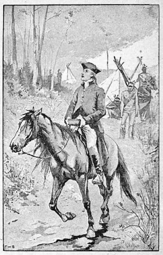 Portrait of David Brainerd on horseback.